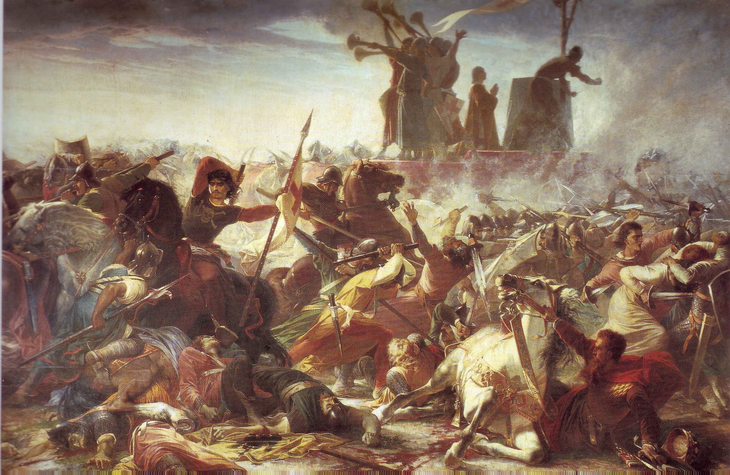 Painting of the defence of the Milanese Caroccio at the Battle of Legnano 1176